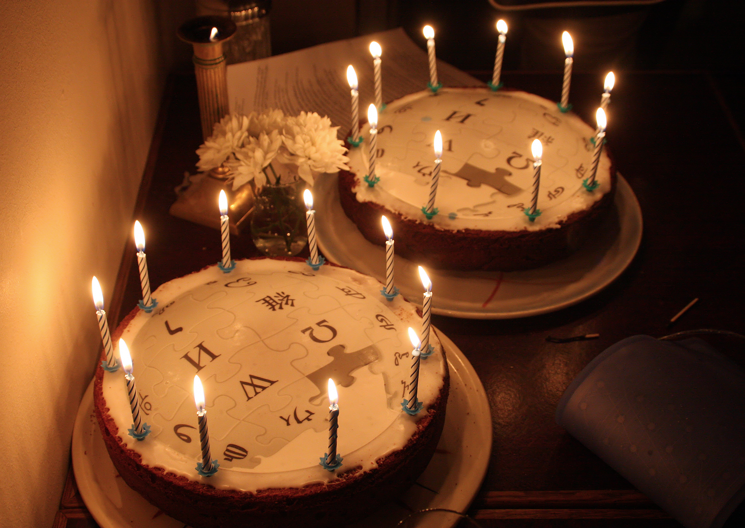 WP10 Birthday cake at Cologne meetup